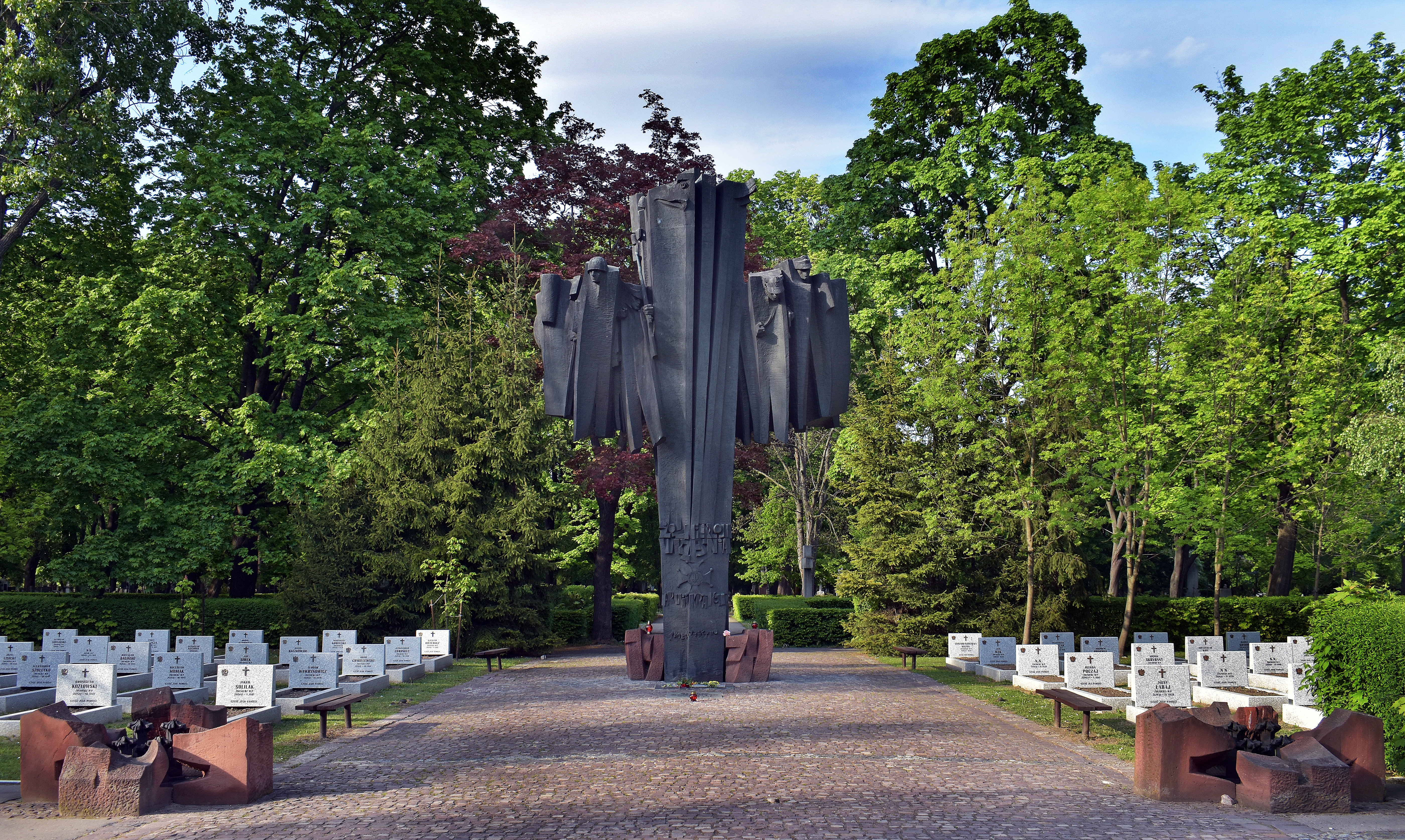 Krakow Military Cemetery, Memorial of the Polish Soldiers of September 1939 and Army Kraków, 1990 design. by Piotr Chwastarz, Henryk Olszówka and Grzegorz Kawczyński,ul. Prandoty 1, Kraków, Poland